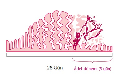 This diagram illustrates how the endometrium builds up and breaks down during the menstrual cycle.